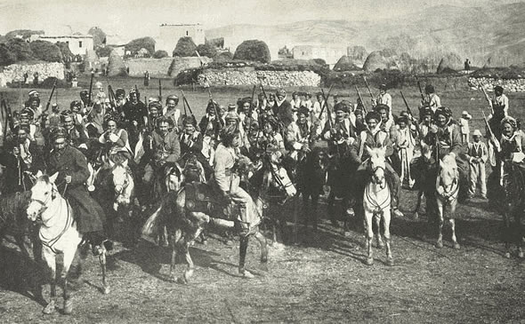 Kurdish cavalry